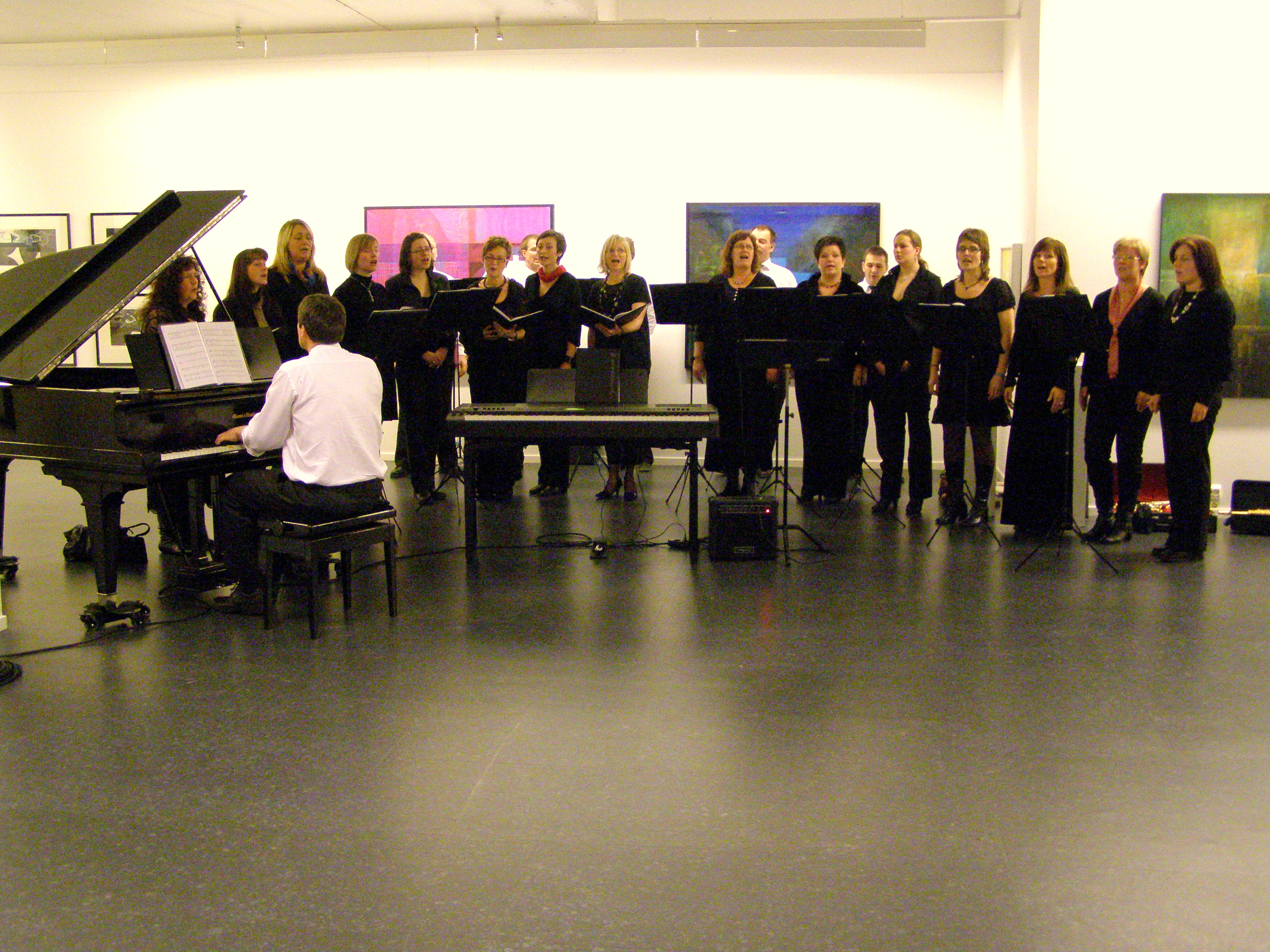 The Norwegian choir Onøy/Lurøy sangkor performing in Bodø, northern Norway: 1. desember 2007